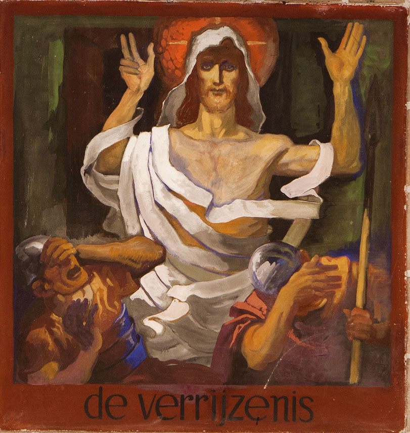 Saint-Josephchurch Leiden